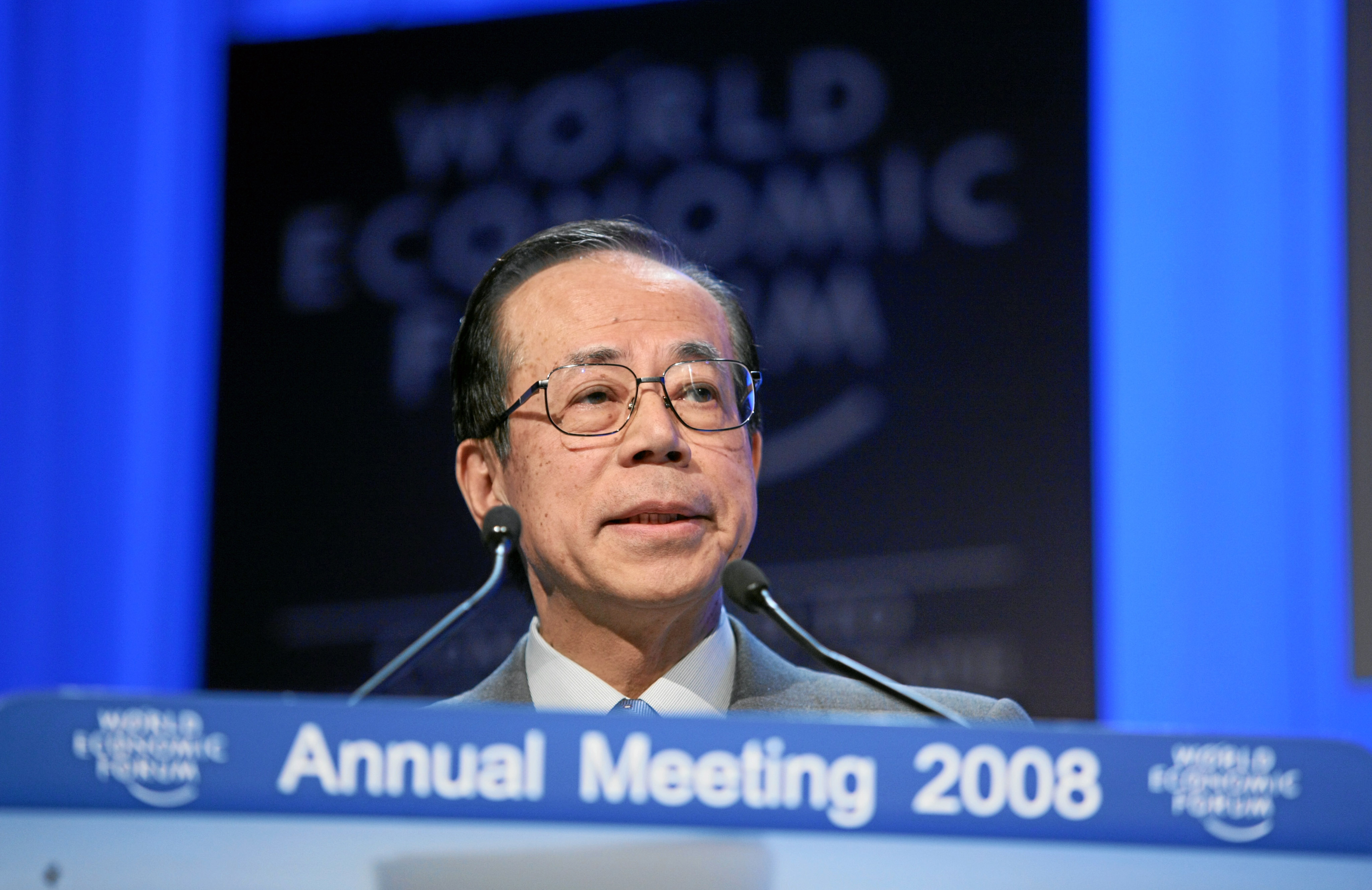 DAVOS/SWITZERLAND, 26JAN08 - Yasuo Fukuda, Prime Minister of Japan holds a Special Address at the Annual Meeting 2008 of the World Economic Forum in Davos, Switzerland, January 26, 2008.